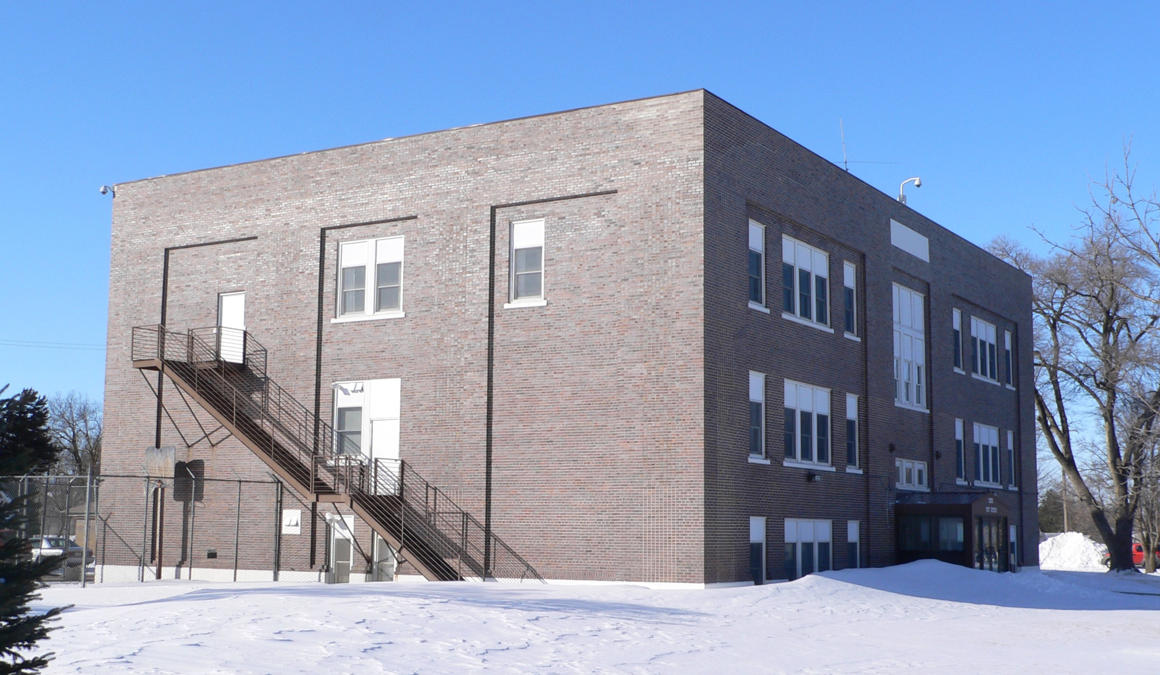 Knox County Courthouse in Center, Nebraska; seen from the southeast. The courthouse was built in 1934, and is listed in the National Register of Historic Places.